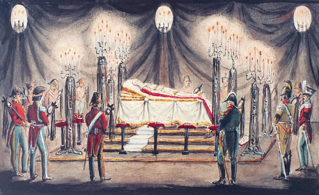 Watercolour depicting King Frederik VI of Denmark on lit de parade (state bed). The watercolour was accompanied by a poem by B. S. Ingemann